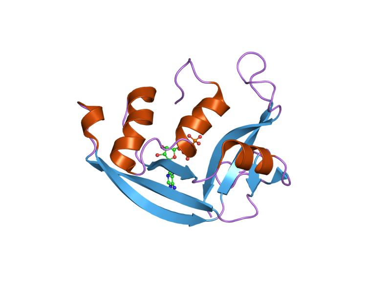 Cartoon representation of the molecular structure of protein registered with 1hi5 code.